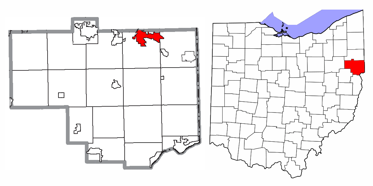 Map highlighting City of Columbiana, Columbiana County, Ohio.